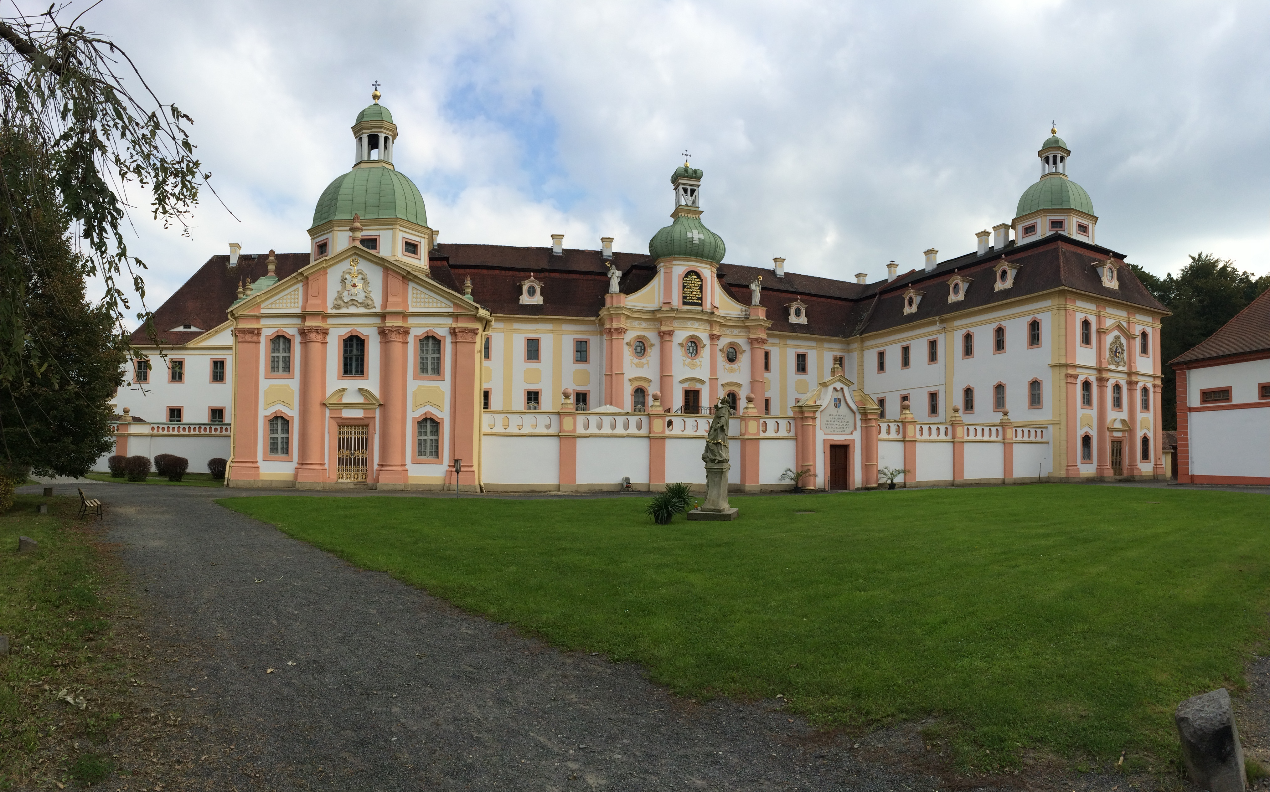 Chapel of the Holy Cross and St Michael